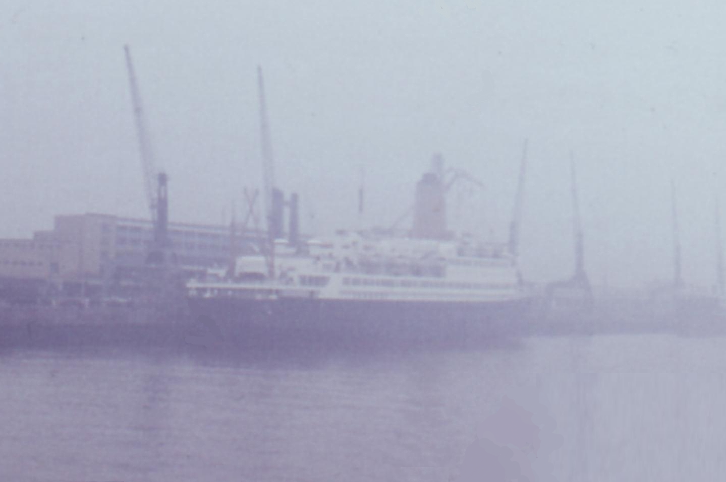 North German Lloyd passenger ship Bremen in the fog at the Columbus terminal in Bremerhaven - 1966